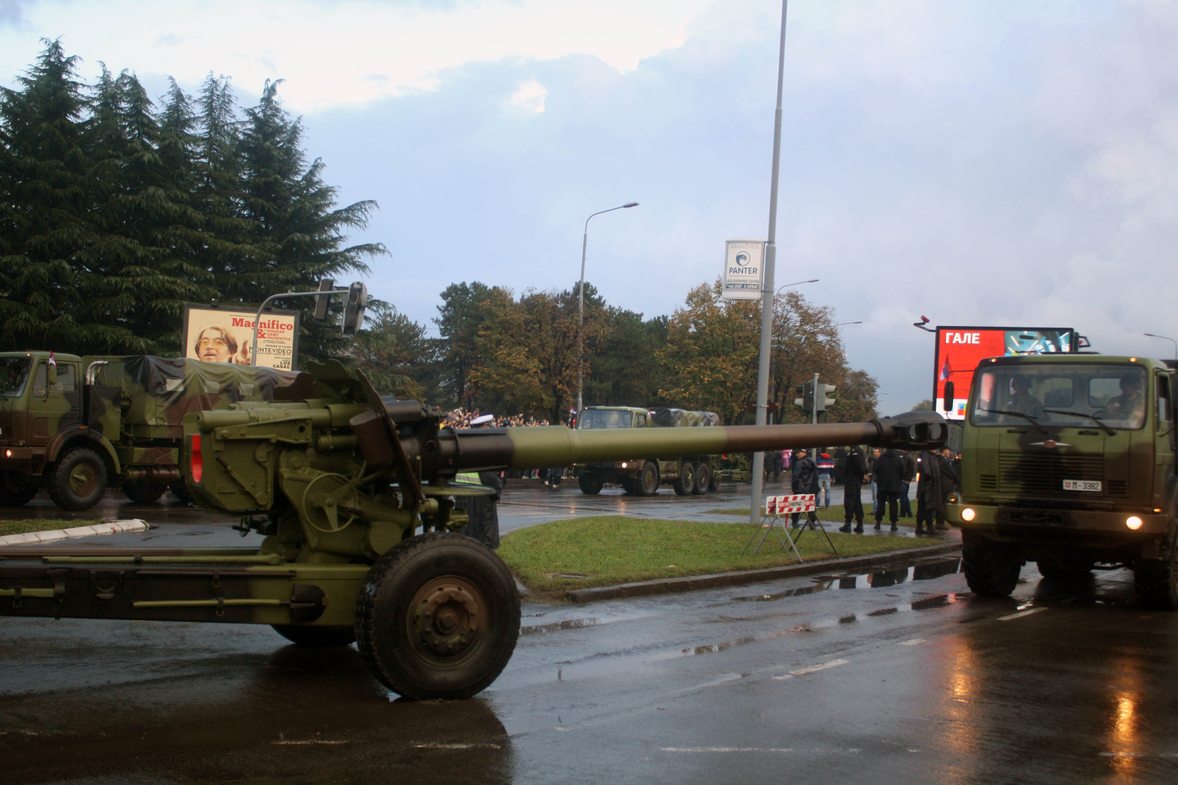 Serbian Army FAP 2026BS/AV 6x6 trucks towing M-84 Nora-A 152 mm gun-howitzers during the military parade "March of the Victorious" on the occasion of marking 100 years since the beginning of the Great War and 70 years since the liberation of the capital in the Second World War.